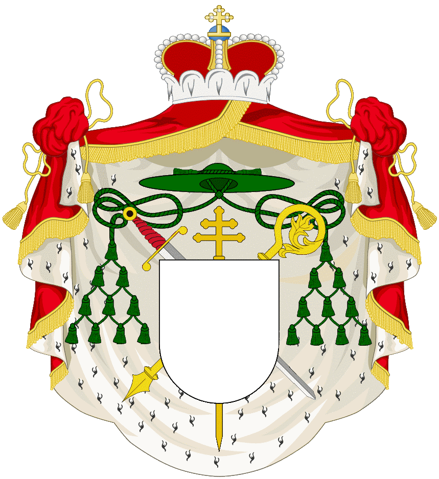 External ornaments for a Prince-Archbishop.